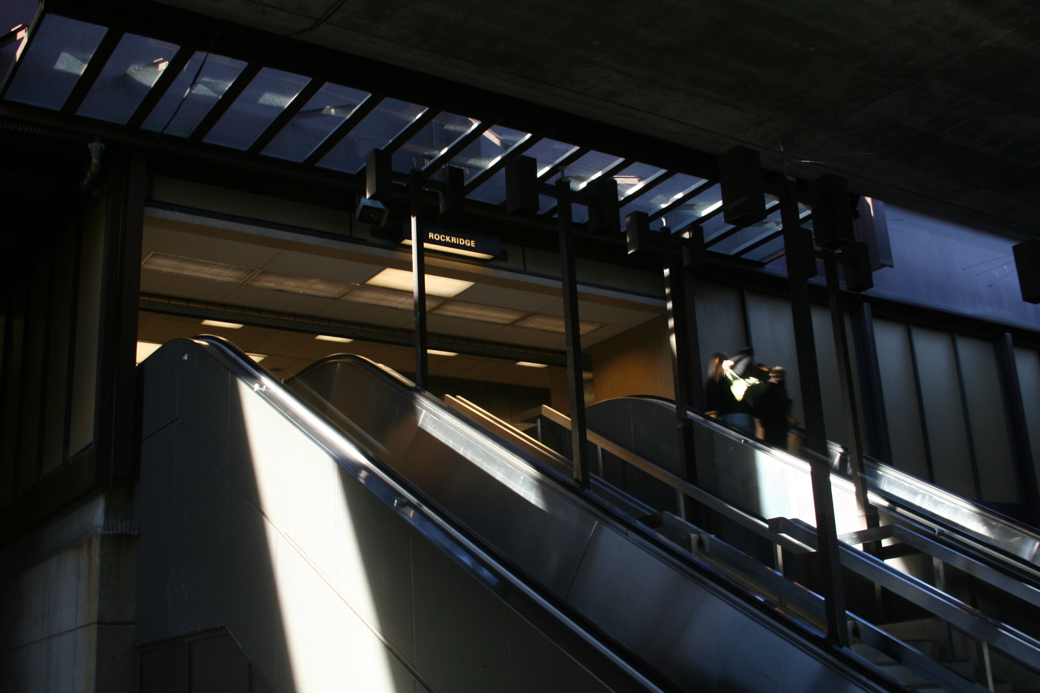 Photographed by and copyright of (c) David Corby (User:Miskatonic, uploader) 2006